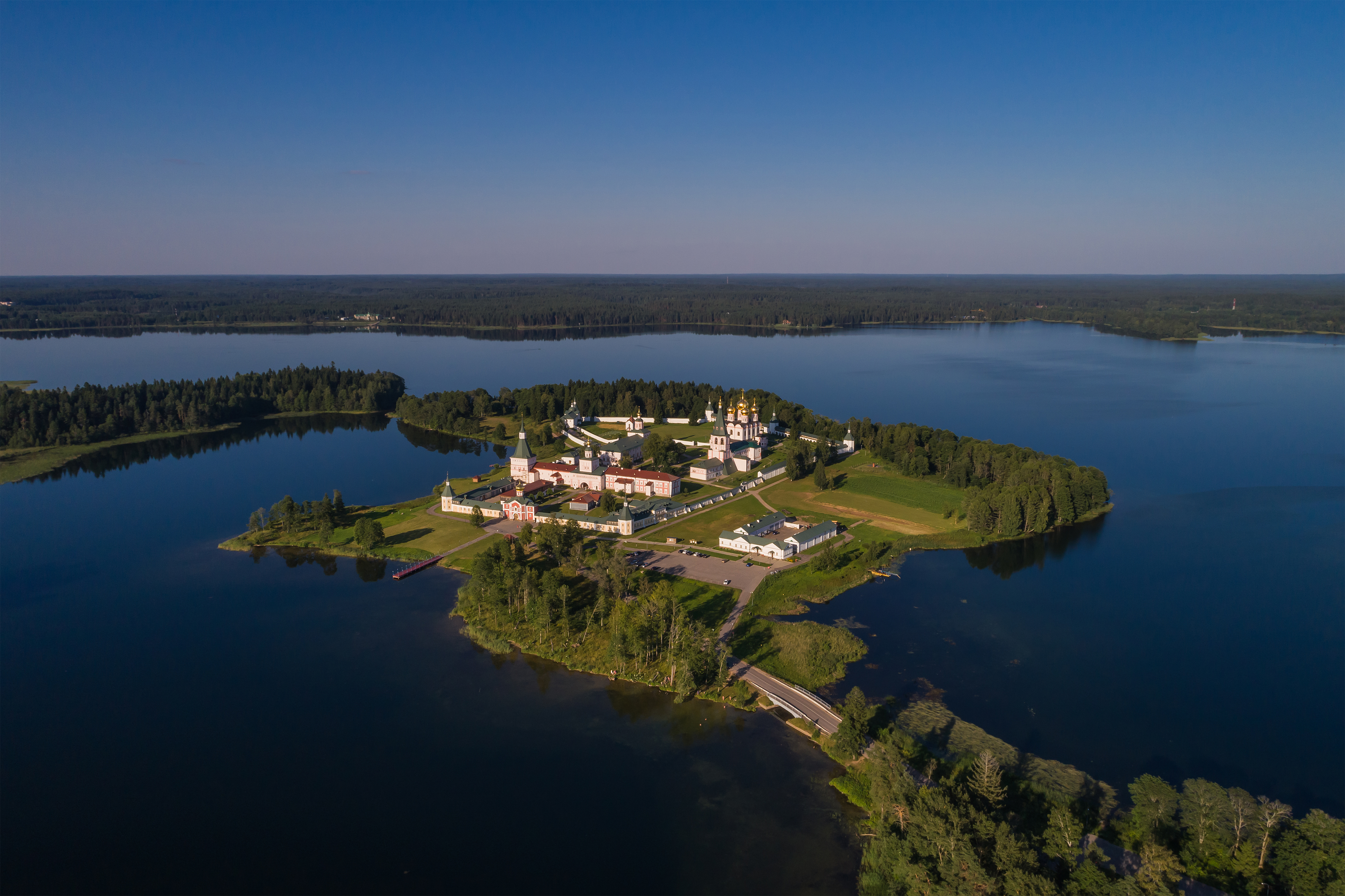 Aerial view of Iversky Monastery in Valdai, Novgorod Oblast, Russia.